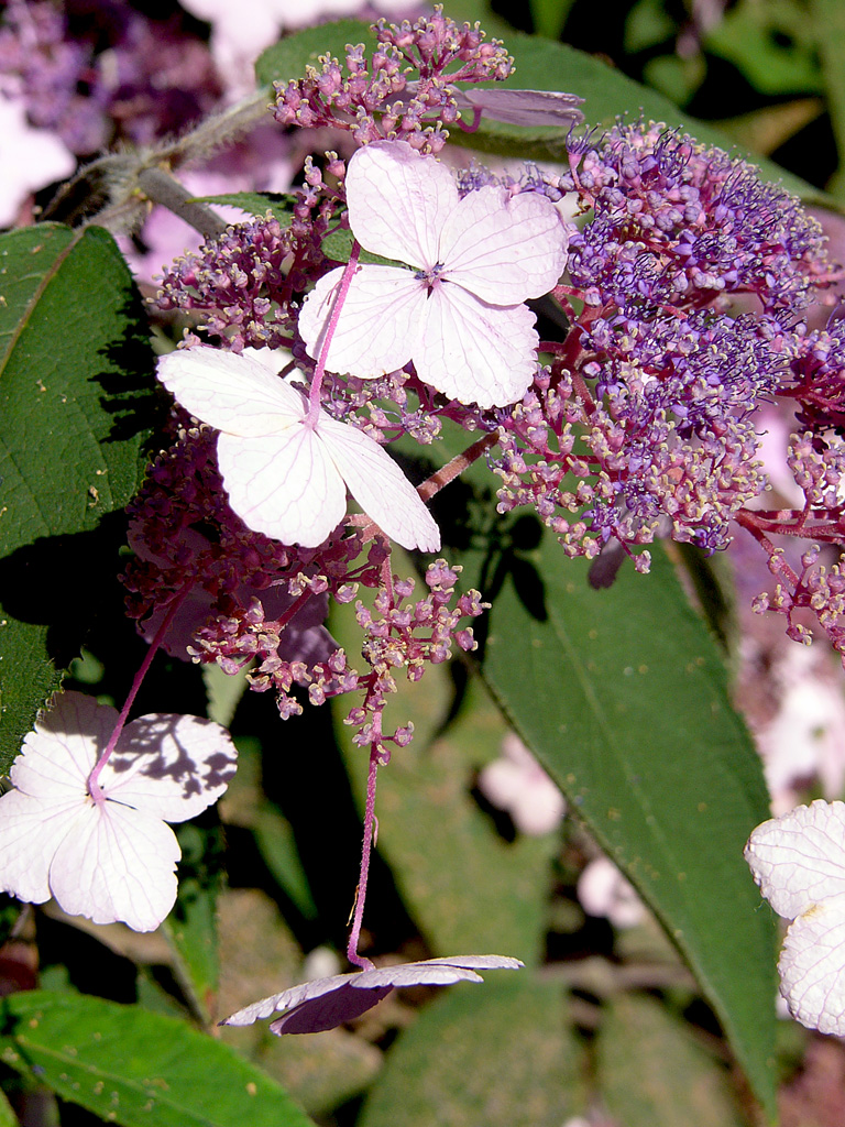 Unknown plant